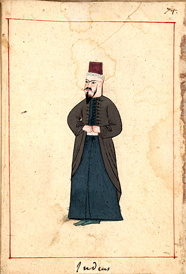 Jew (Pictures from the Ralamb Costume Book, 1657)